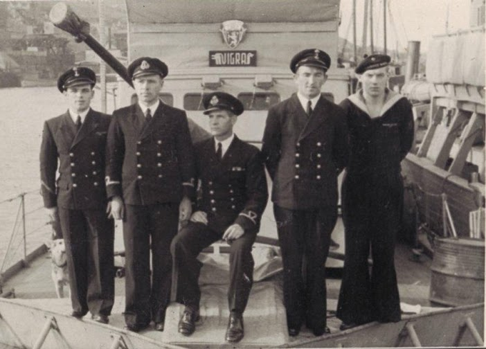 Mannskap på Vigra